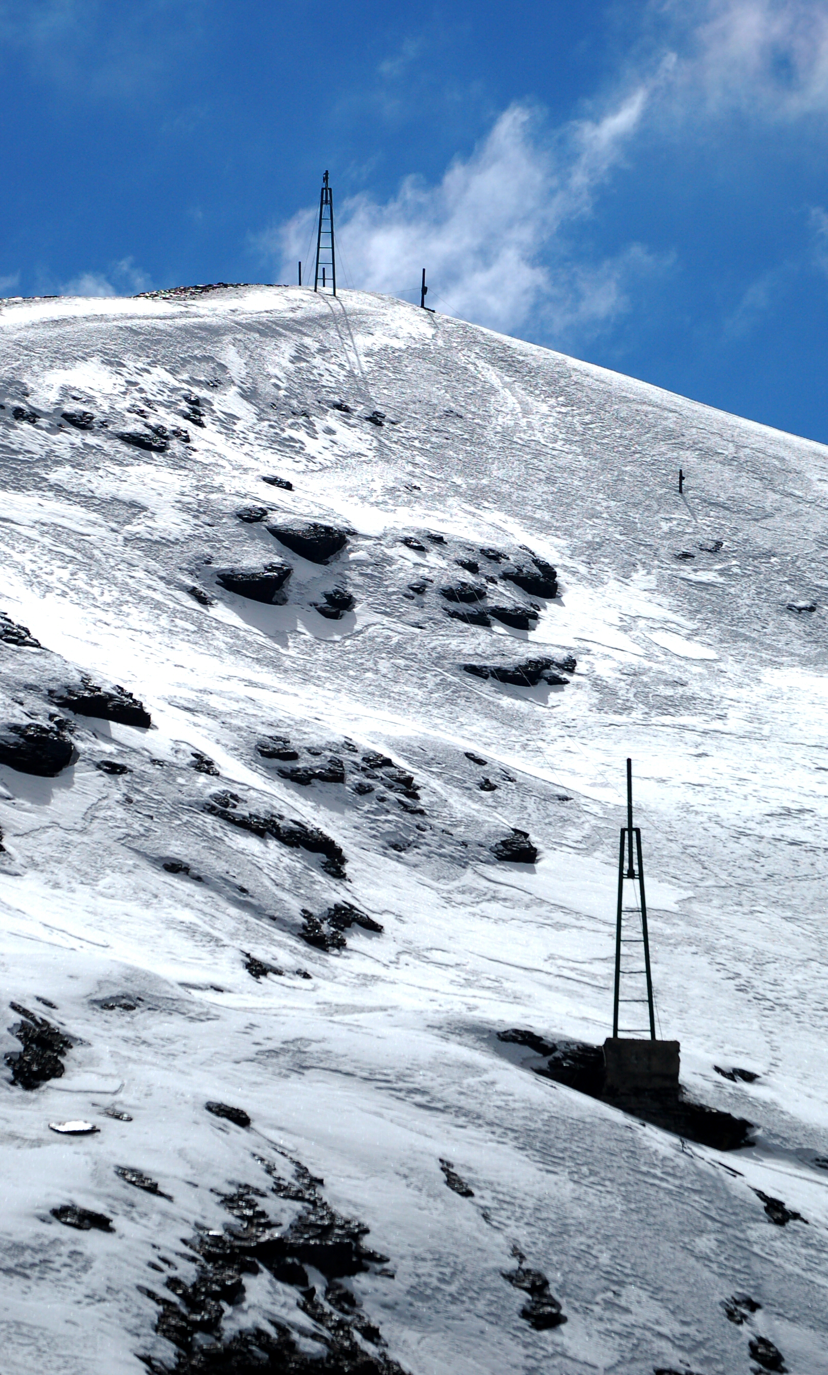 Ski lift up to the top of Mount Chacaltaya, Bolivia.